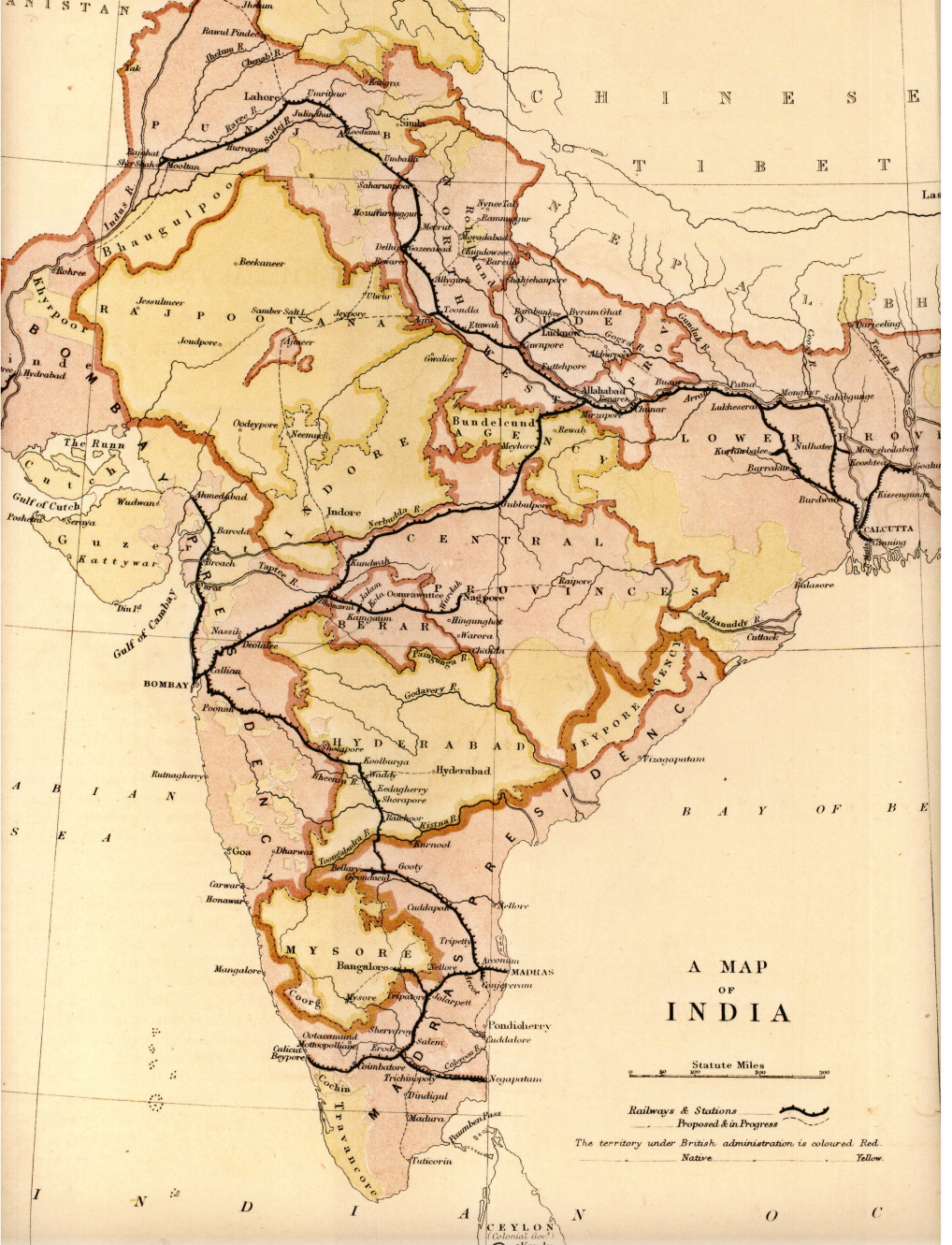 Map of Indian Railways in 1871 prepared by the British Government India Office for the House of Commons Committee.